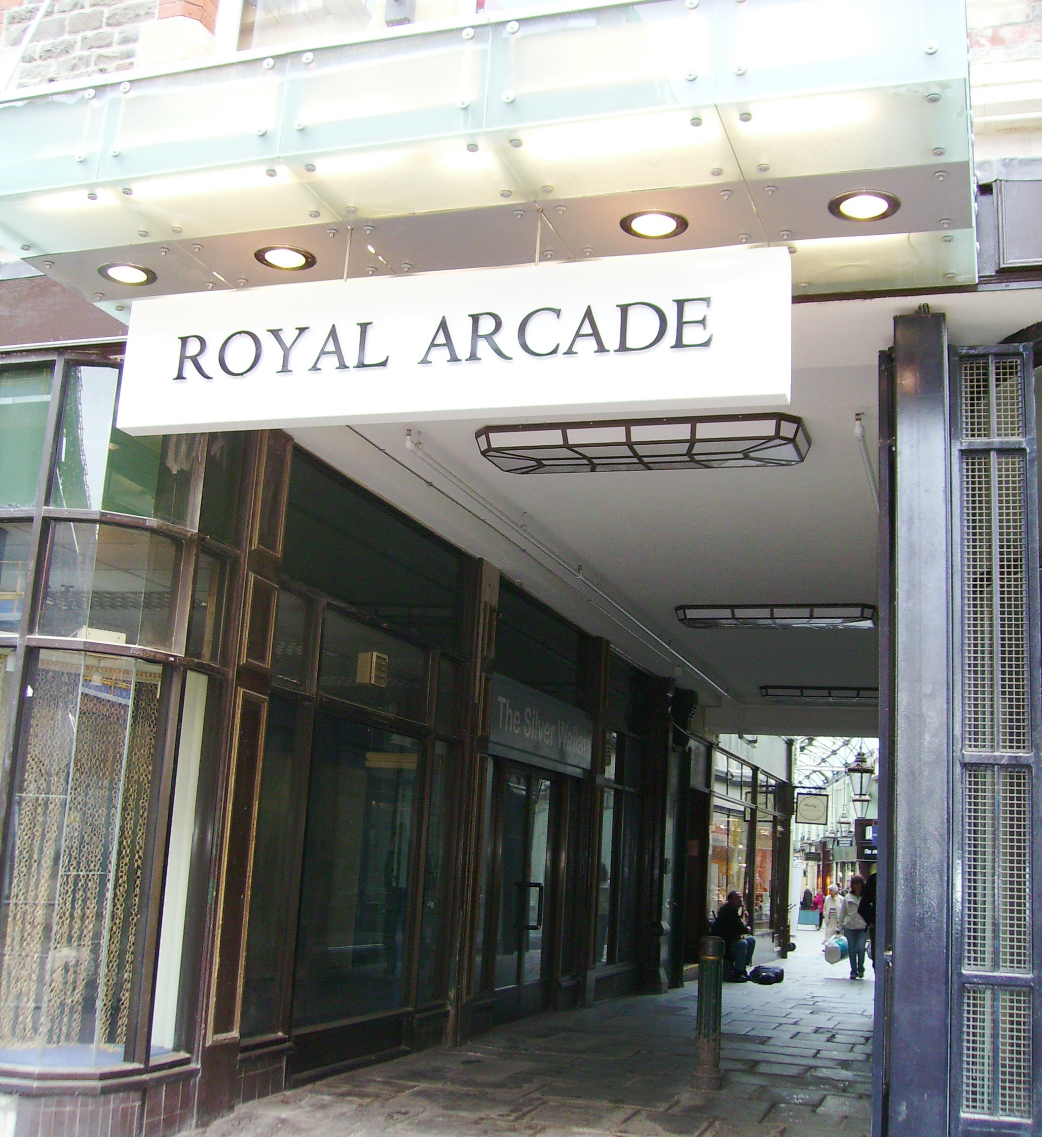 Royal Arcade, The Hayes entrance, Cardiff, Wales